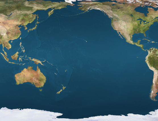 Location map of the Pacific Ocean Equirectangular projection. Geographic limits of the map: N: 72° N S: 81° S W: 95° E E: 65° W